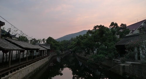 Hui Shan Ancient Town In Twilight